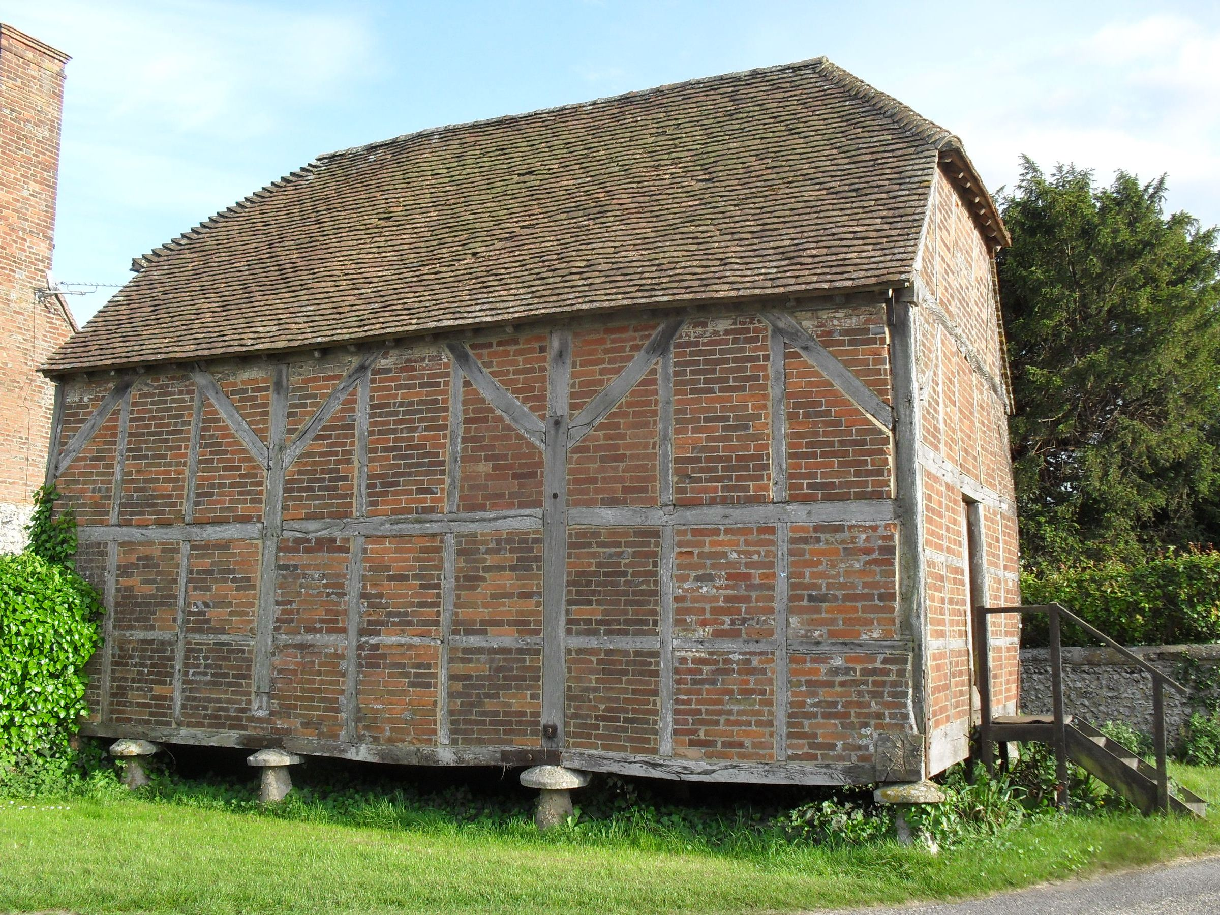 17th-century former granary at Manor Farm, by St George's parish church, Eastergate, West Sussex, England